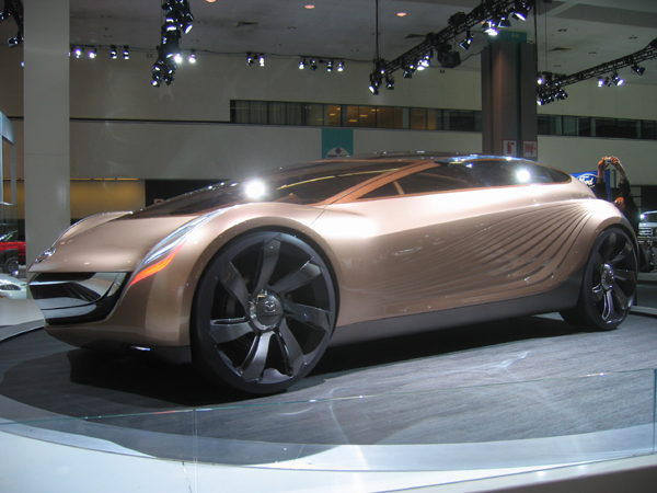 Mazda Nagare Taken at the 2006 Los Angeles International Auto Show